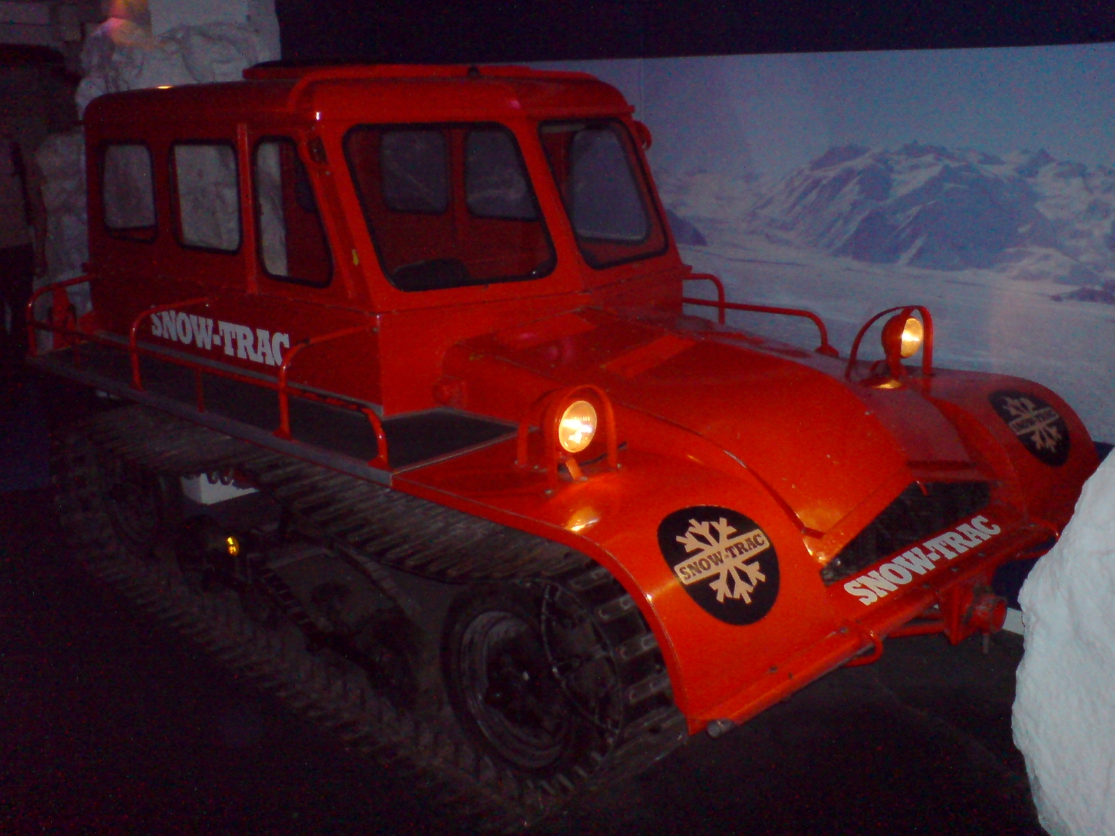 A Snow Trac tracked vehicle in the Antarctic part of Kelly Tarlton's Underwater World in Auckland, New Zealand.